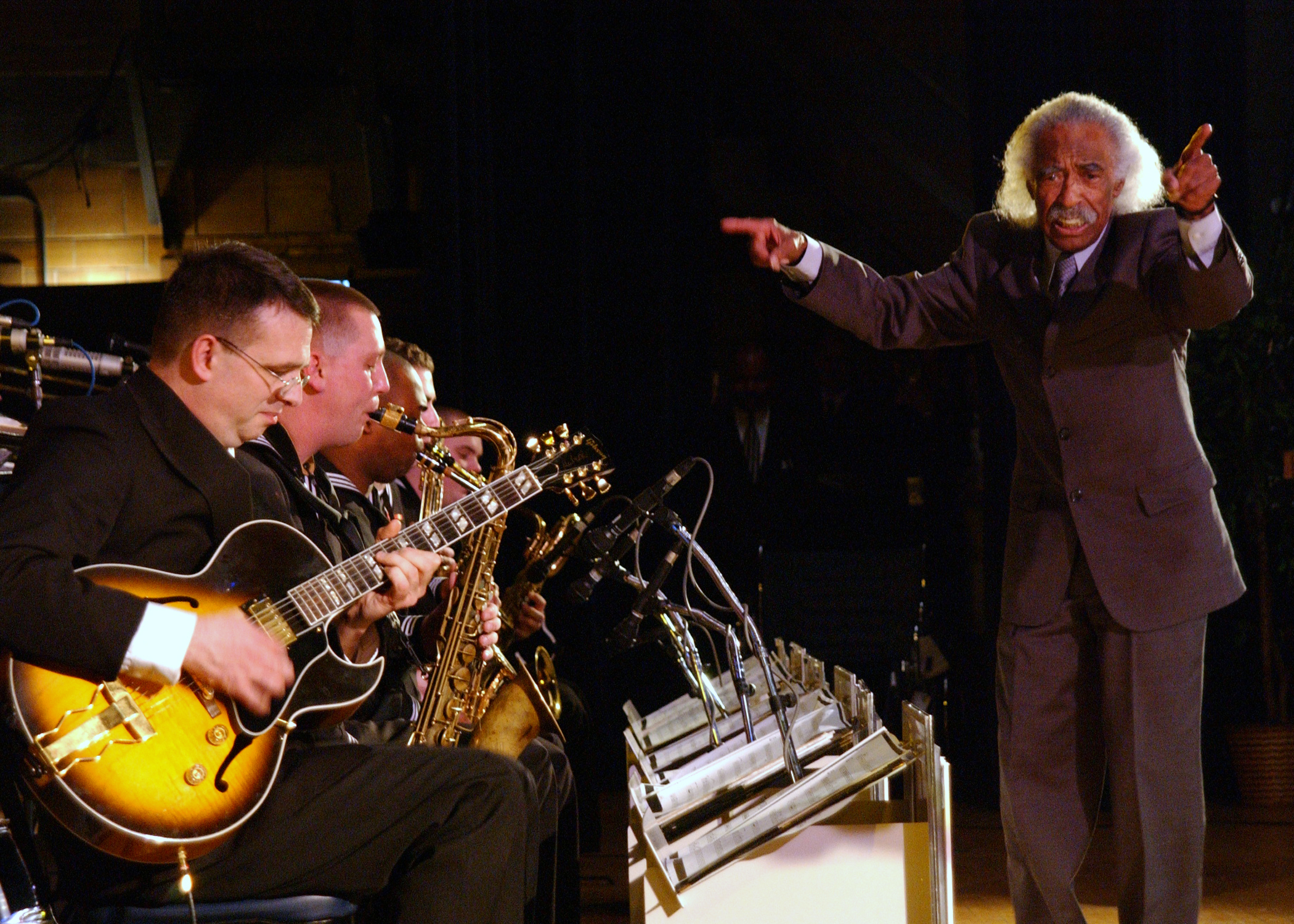 Naval Station Great Lakes Ill. (Feb. 28th, 2002) – Mr. Gerald Wilson, guest conductor of the Great Lakes Jazz Ensemble, helped conduct a special concert, “Great Lakes Experience.” Wilson, one of the first black Navy musicians and composer at Great Lakes during WWII, and played with Legendary Trumpeter Mr. Clark Terry between 1941 and 1945. Terry was also a guest player during the special concert. Approximately 20 other former African American Navy musicians, and Great Lakes alumni were recognized for their dedicated service during the concert. U.S. Navy photo by Photographer’s Mate 1st Class Michael Worner. (RELEASED)